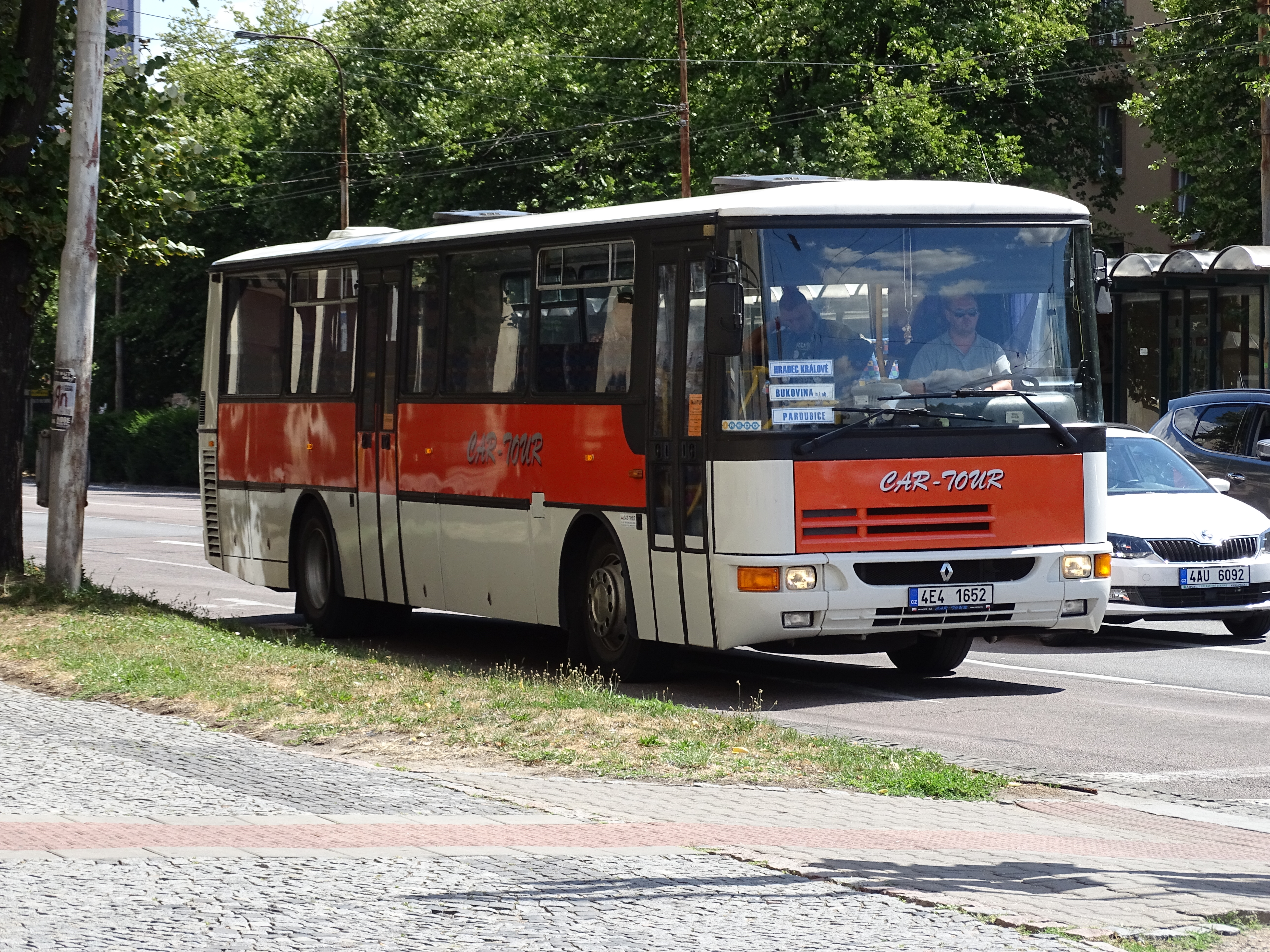 Pardubice I-Zelené Předměstí, Pardubice District, Pardubice Region, Czech Republic. Palackého třída, a bus of CAR-TOUR before the bus station.